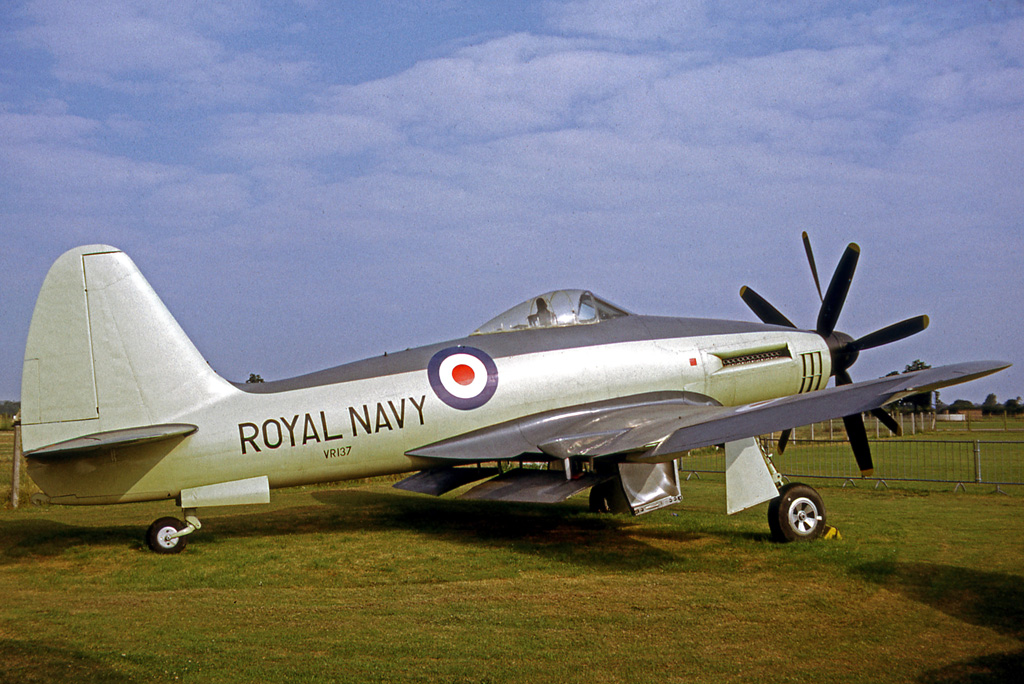 Westland Wyvern TF.1 VR137 on external display at the FAAM Yeovilton in 1971